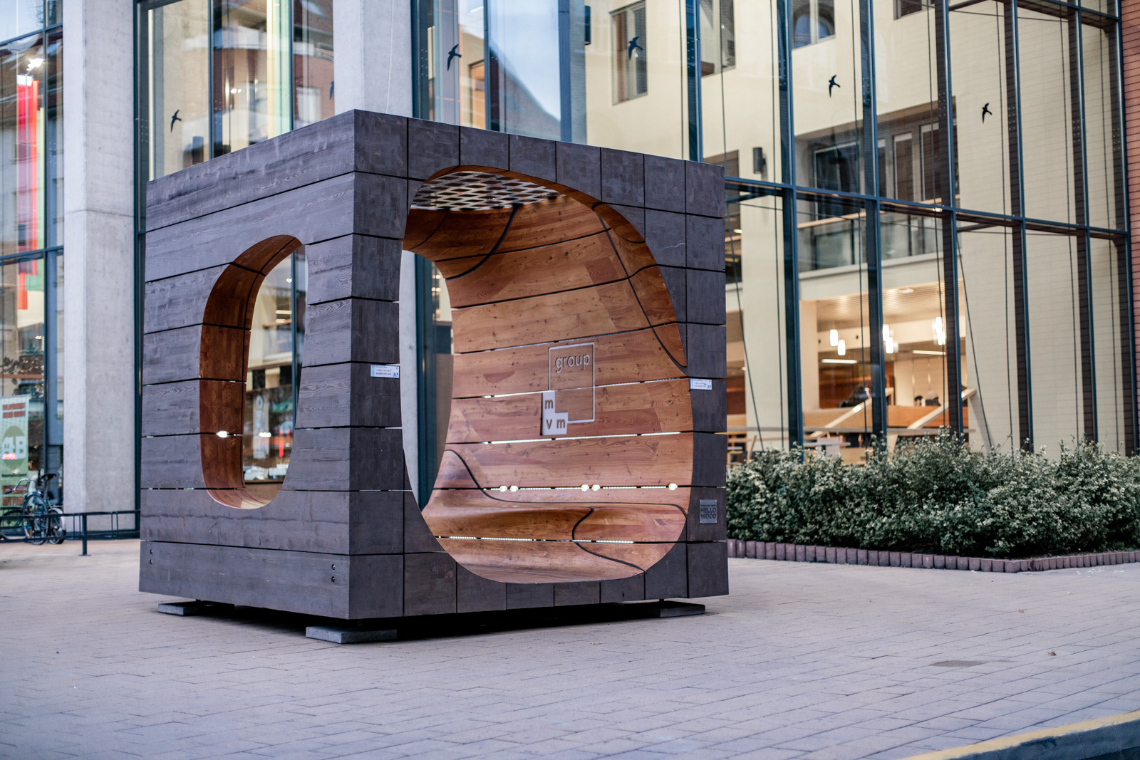 Hello Wood Fluid Cube